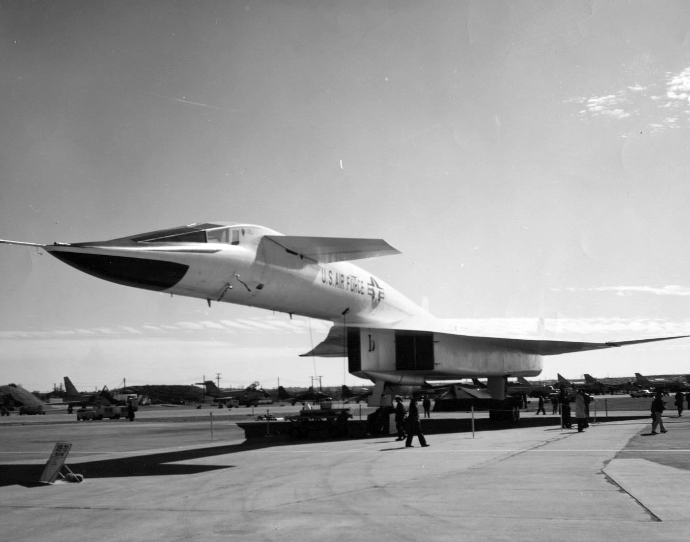 North American XB-70A Valkyrie